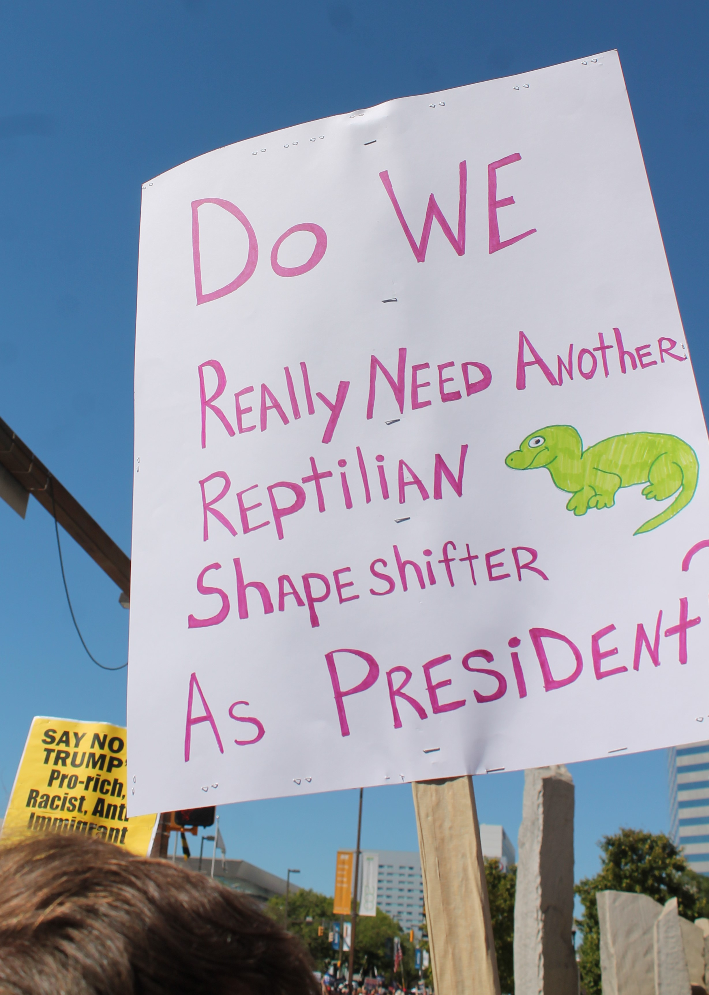 Peoples Power Assembly and Baltimore FIST anti -TRUMP counter demonstration during National Guard Association of the United States Conference and Exhibition at the Baltimore Convention Center on Pratt at Charles Street in Baltimore MD on Sunday morning, 12 September 2016 by Elvert Barnes Photography Elvert Barnes Protest Photography